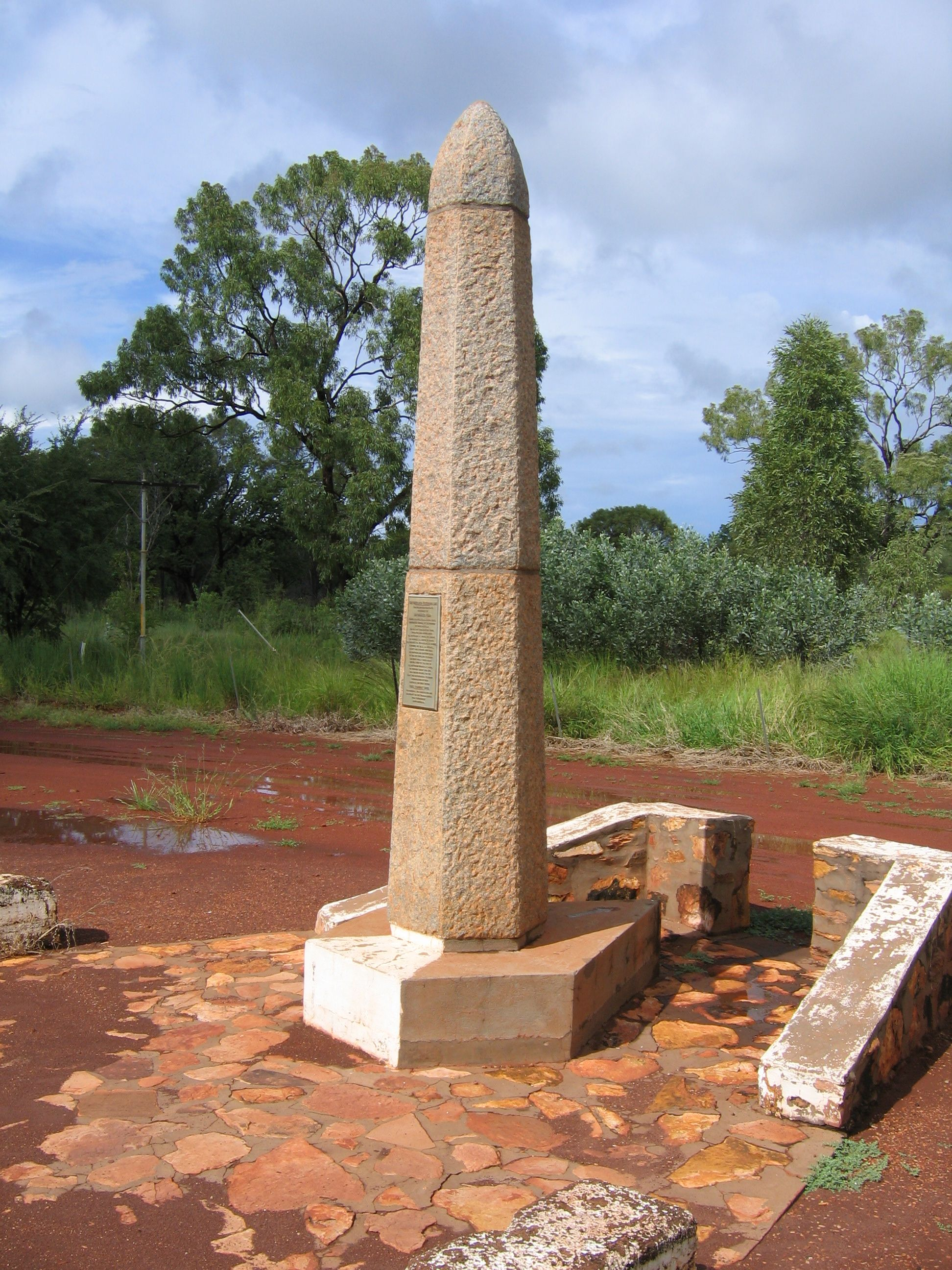 Meeting point of southern and northern Line - Transaustralian Telegraph Line